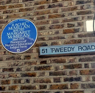 Rachel and Margaret McMillan plaque, Bromley. Thanks to Sam Webber @samdwebber for the photo. See here